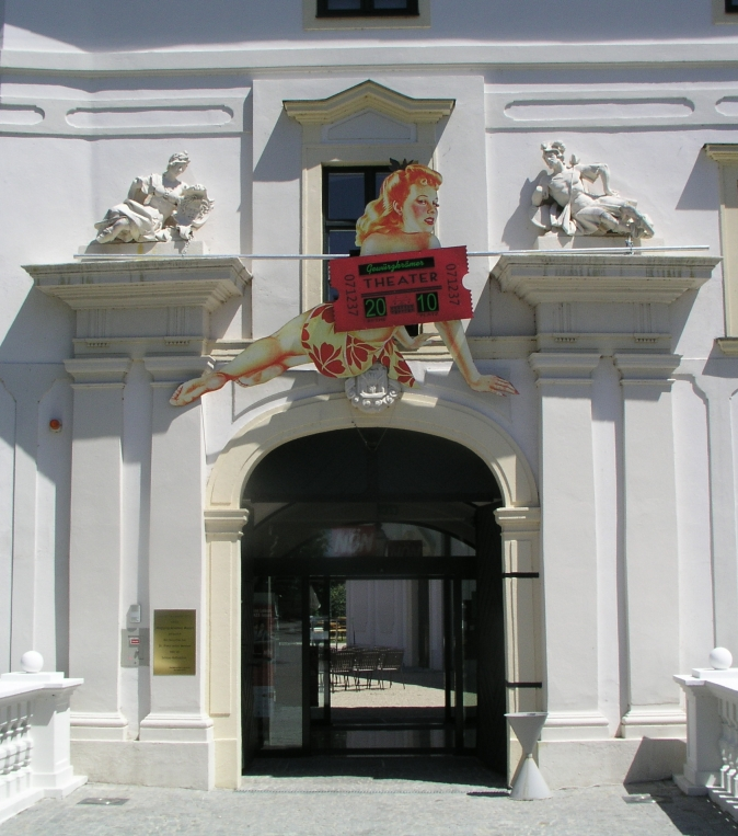 Entrance to Rothmuehle Nestroy 2010